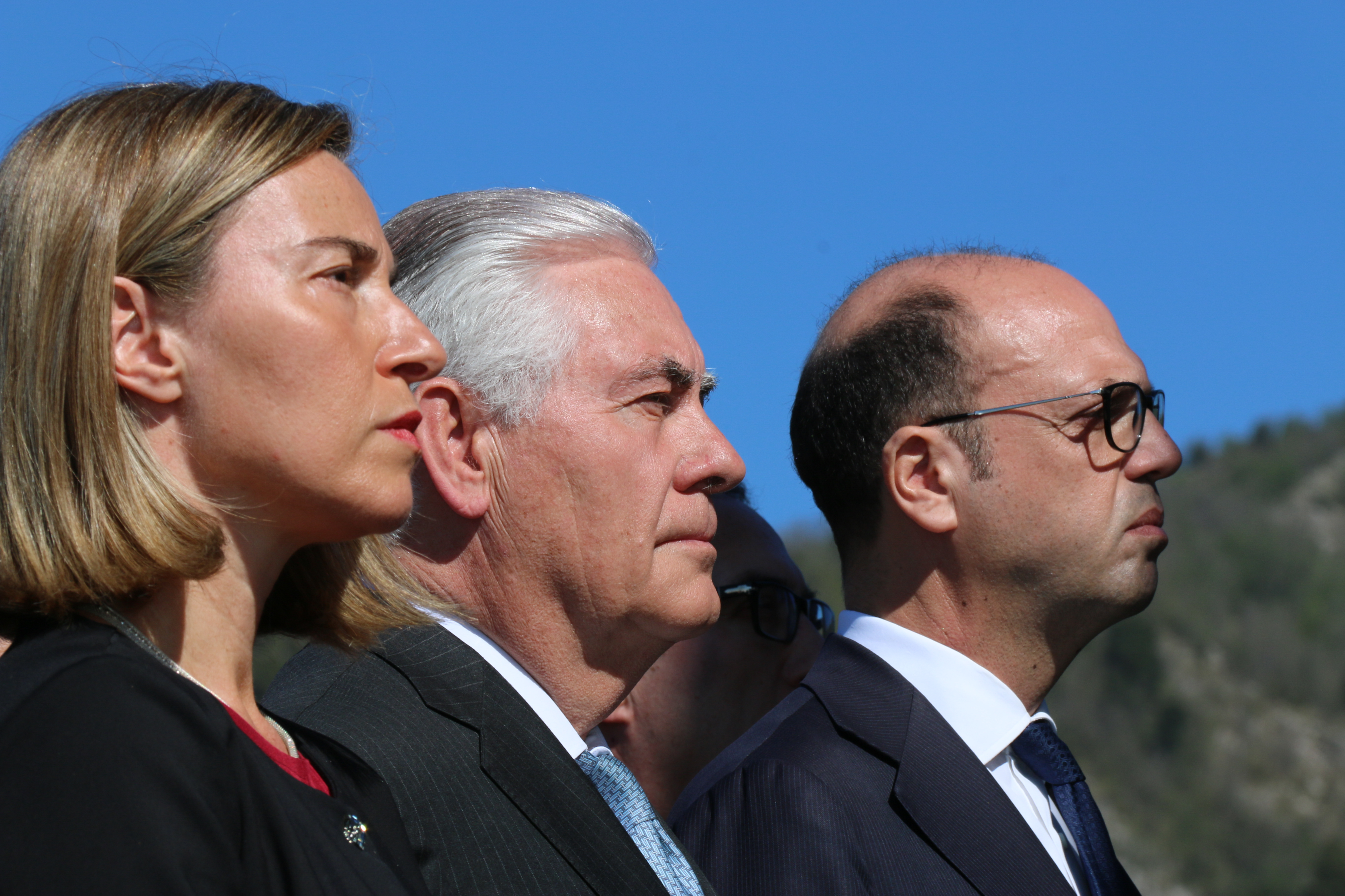 U.S. Secretary of State Rex Tillerson, flanked by European Union for Foreign Affairs and Security Policy and Vice-President of the Commission Federica Mogherini and Italian Minister of Foreign Affairs, Angelino Alfano, participate in a moment of silence at the Sant'Anna di Stazzema massacre memorial site in Lucca, Italy, on April 10, 2017. [State Department photo/ Public Domain]